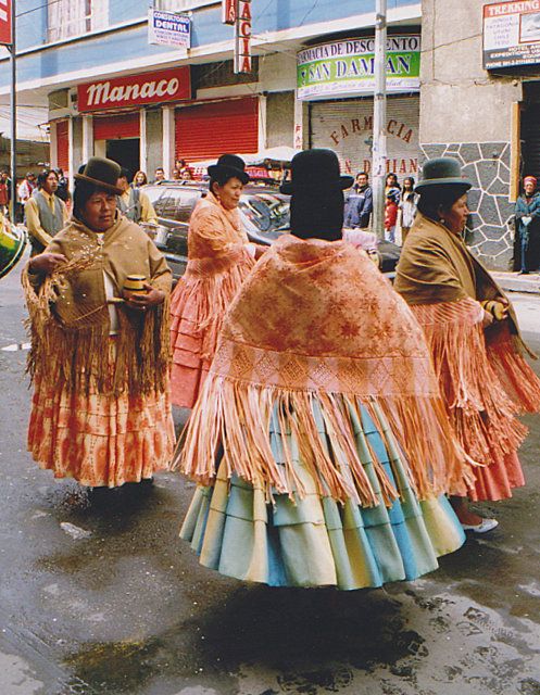 Dancing women in La Paz Bolivia